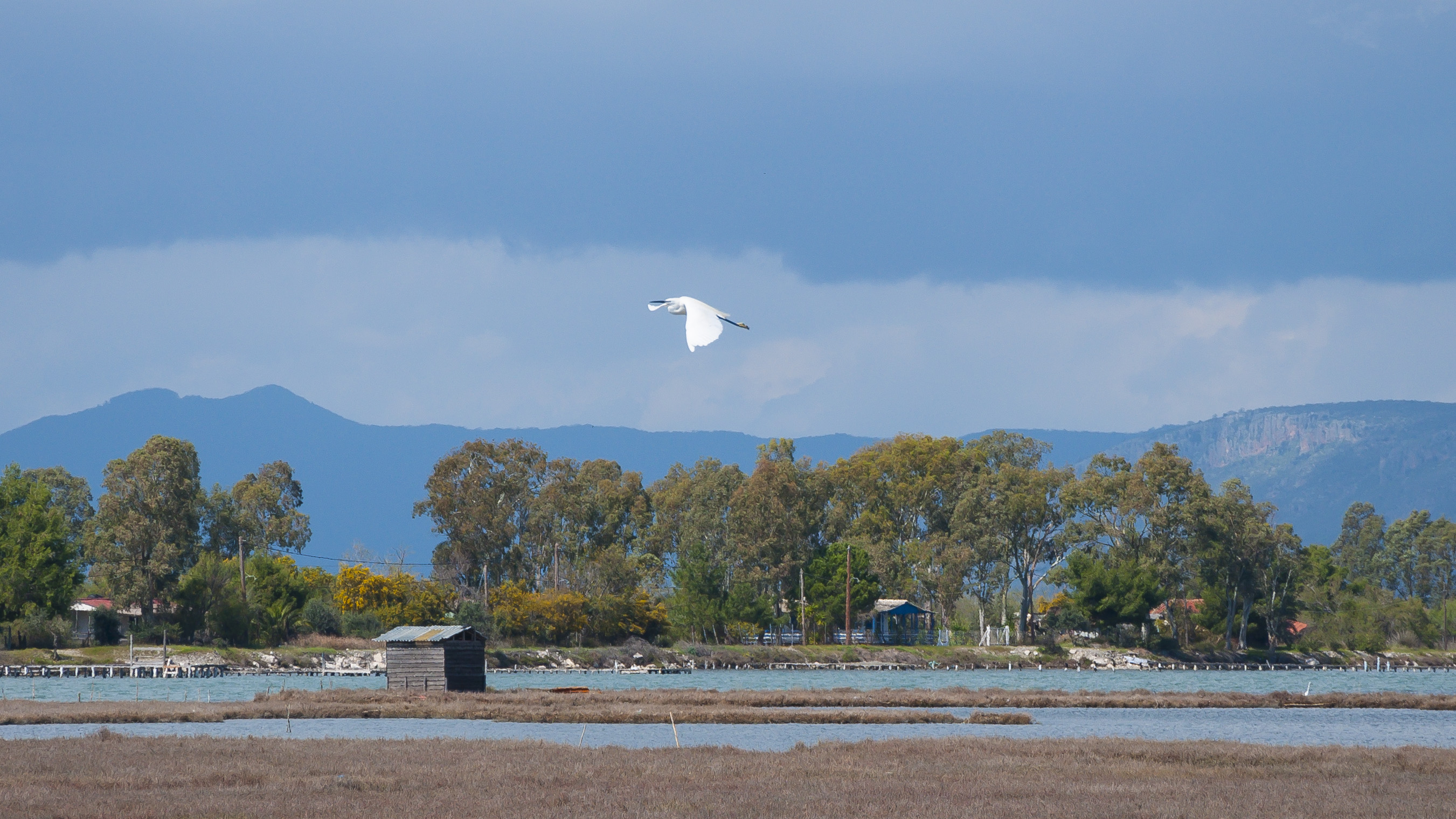 This is a photography of Natura 2000 protected area with ID GR2310015 Λευκοτσικνιάς (Egretta garzetta) στη λιμνοθάλασσα Μεσολογγίου Heron (Egretta garzetta) in the Mesolongi Lagoon